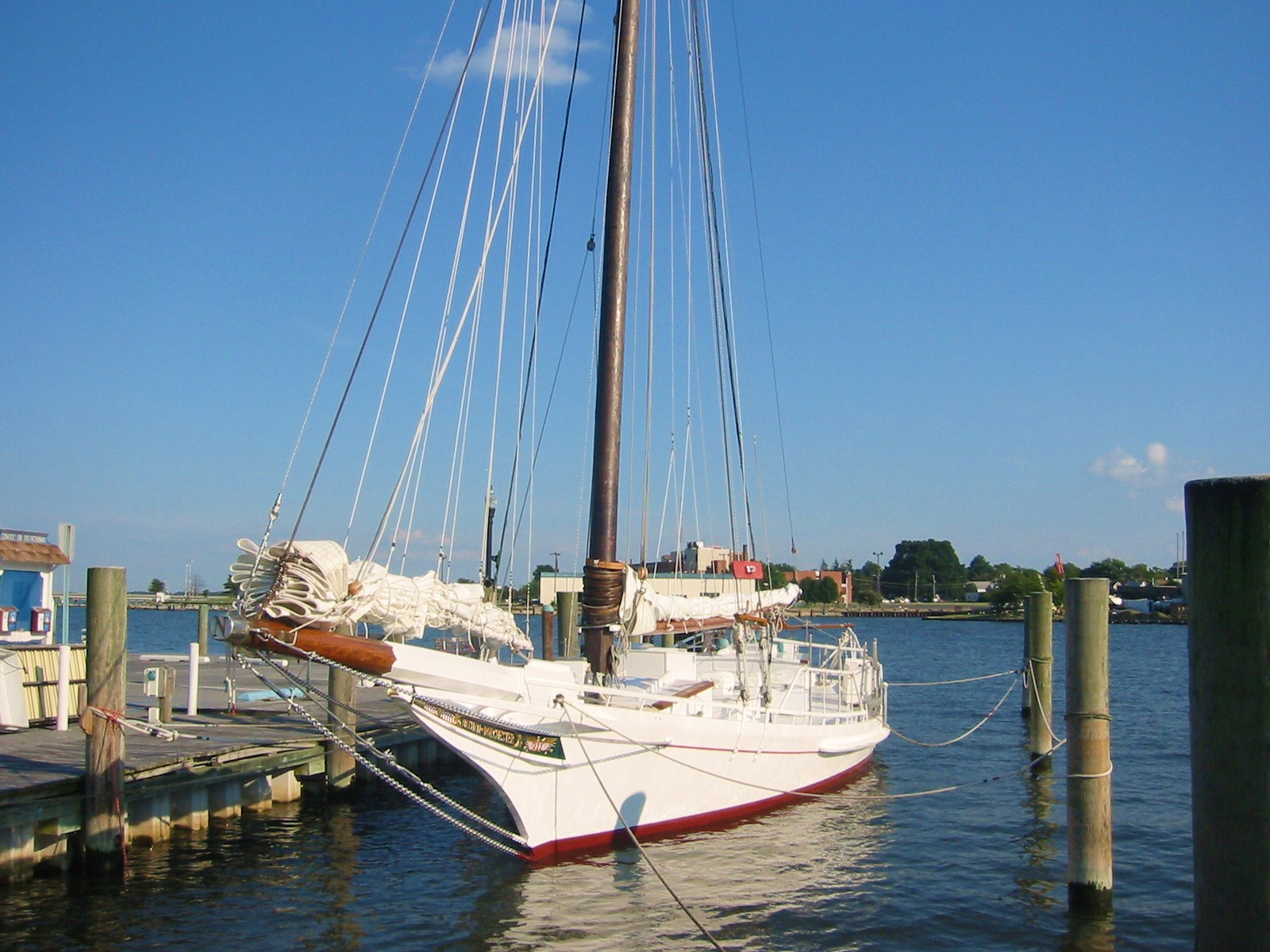 "The Nathan of Dorchester"